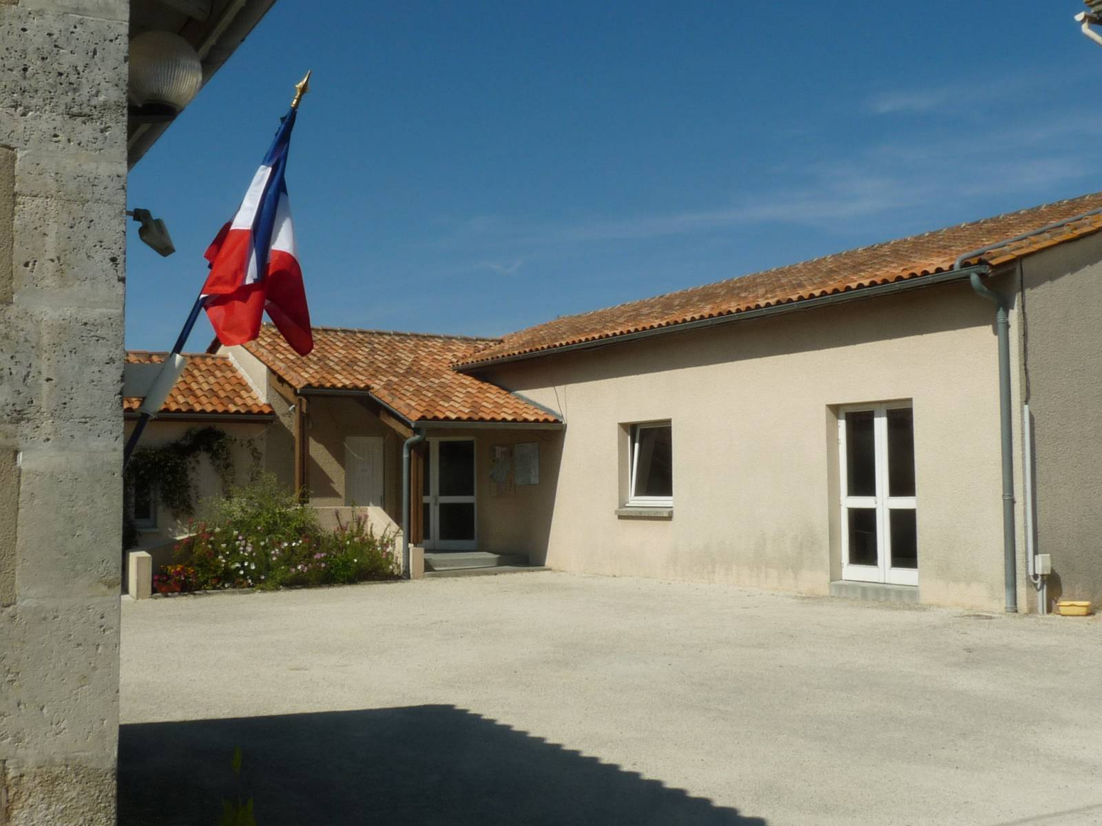 community hall of St-Félix, Charente, SW France